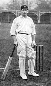 Picture of former Australian cricketer Clem Hill, taken during his playing career, which ended before World War I. The image is pre-1955 and therefore in the public domain. This image is of Australian origin and is now in the public domain because its term of copyright has expired. According to the Australian Copyright Council (ACC), ACC Information Sheet G023v16 (Duration of copyright) (Feb 2012). Type of materialCopyright has expired if ... A Photographs or other works published anonymously, under a pseudonym or the creator is unknown:taken or published prior to 1 January 1955 B Photographs (except A):taken prior to 1 January 1955 C Artistic works (except A & B):the creator died before 1 January 1955 D Published editions1 (except A & B):first published more than 25 years ago E Commonwealth or State government owned2 photographs and engravings:taken or published more than 50 years ago and prior to 1 May 1969 1 means the typographical arrangement and layout of a published work. eg. newsprint. 2owned means where a government is the copyright owner as well as would have owned copyright but reached some other agreement with the creator. When using this template, please provide information of where the image was first published and who created it.